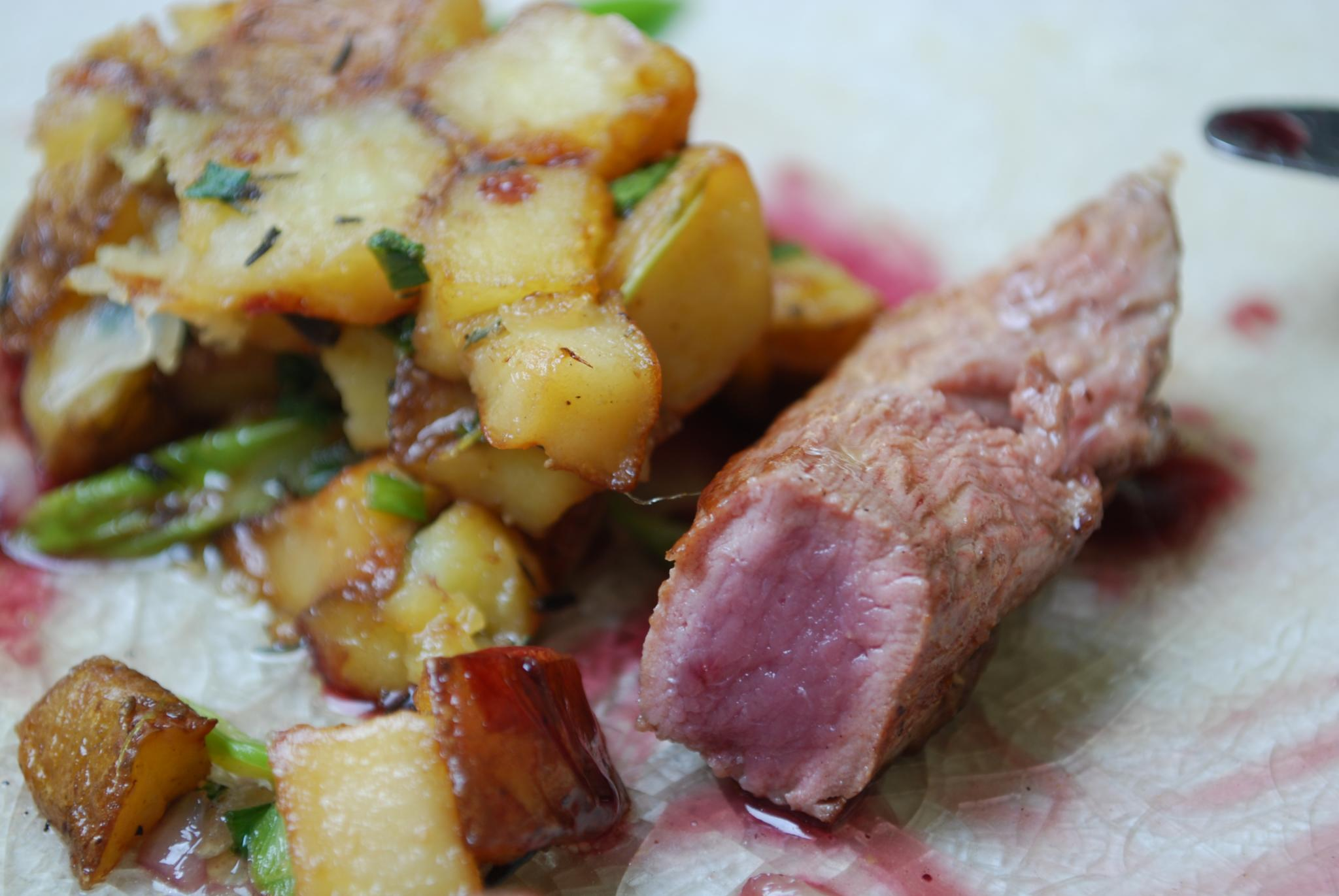 Sliced duck filet in red wine, grape and thyme served with asparagus and potatoes country-side style.